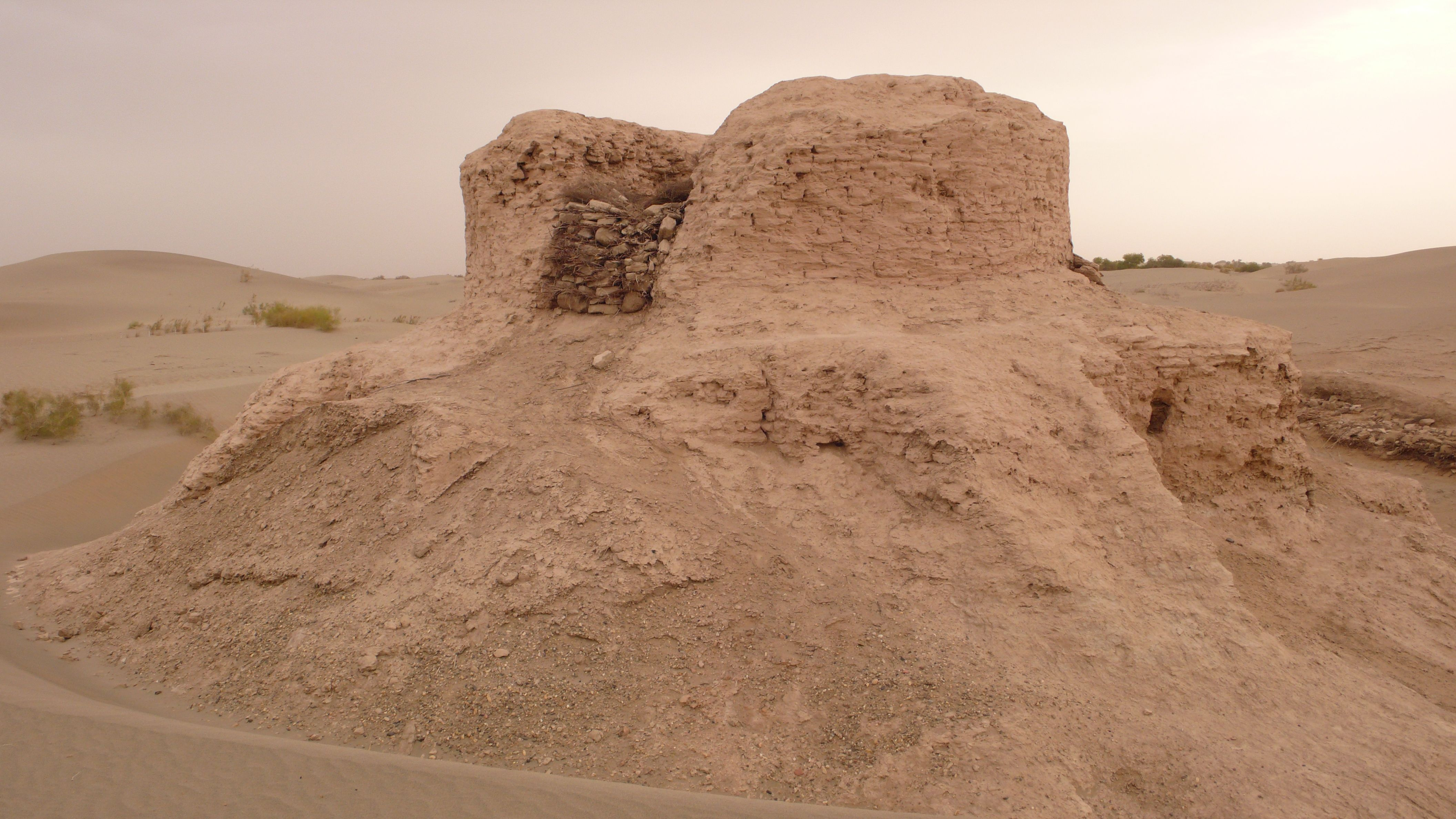 Rawak Temple in the Taklimakan desert (close to Hotan / Khotan)